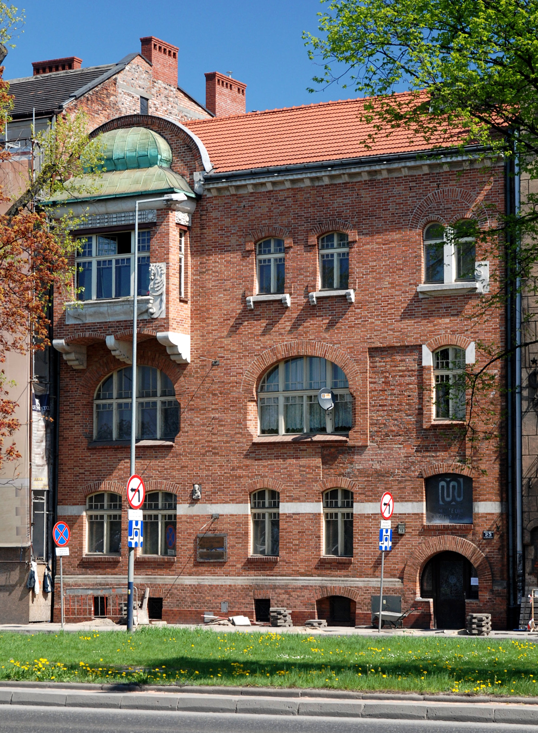 Museum of stained glass. Avenue Z. Krasińskiego 23, Kraków, Poland. Architect: Ludwik Wojtyczko, 1906.